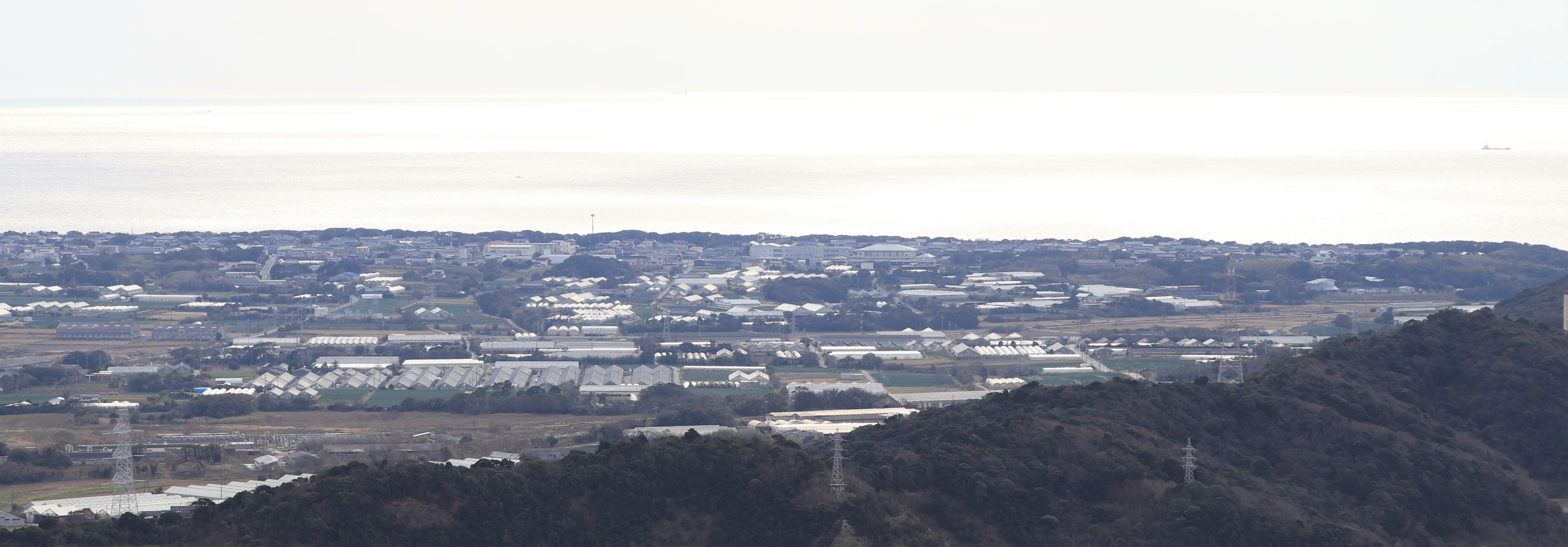 Akabane-chō, Tahara in Aichi Prefecture, Japan.